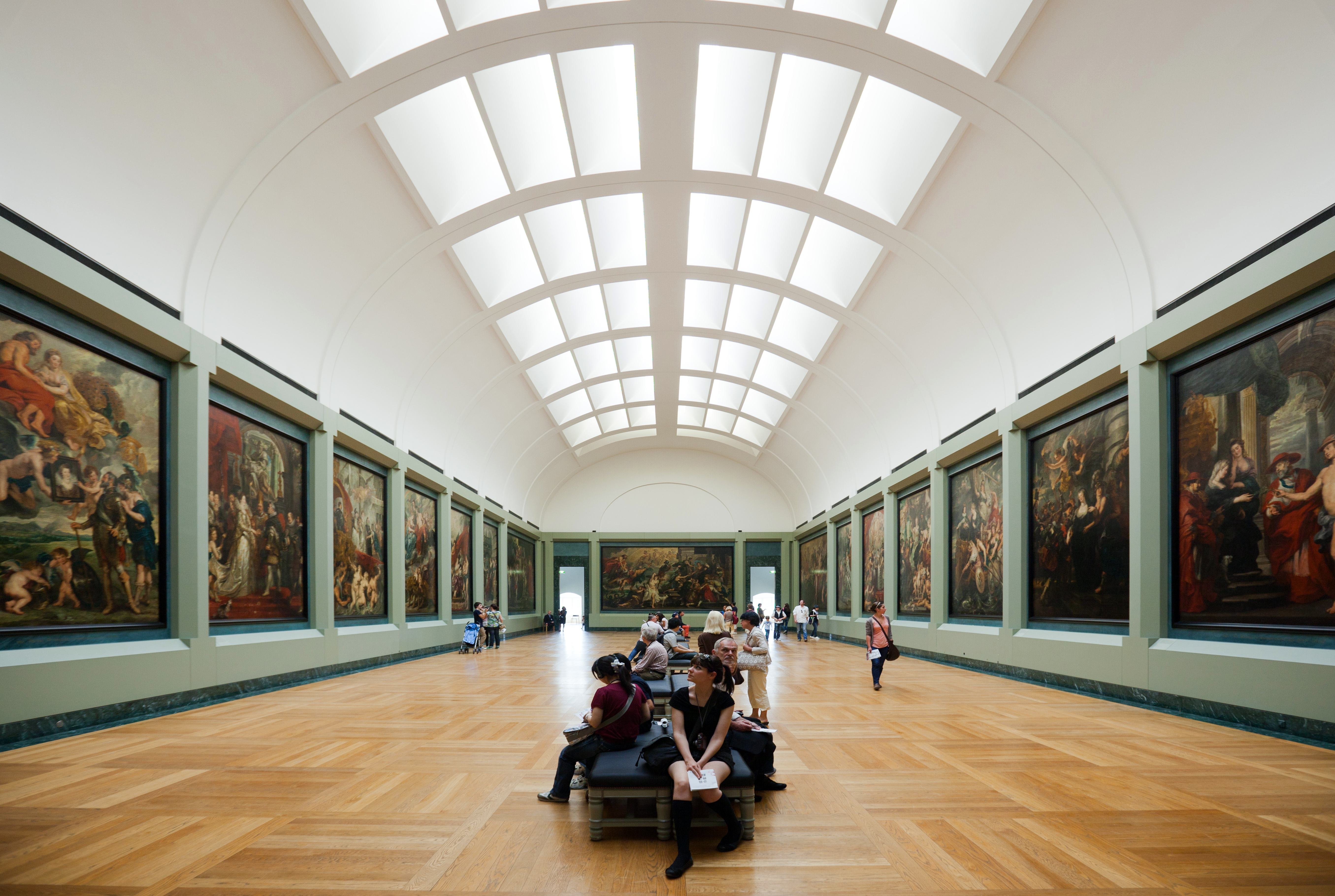 Galerie Médicis, Richelieu wing, Palais du Louvre